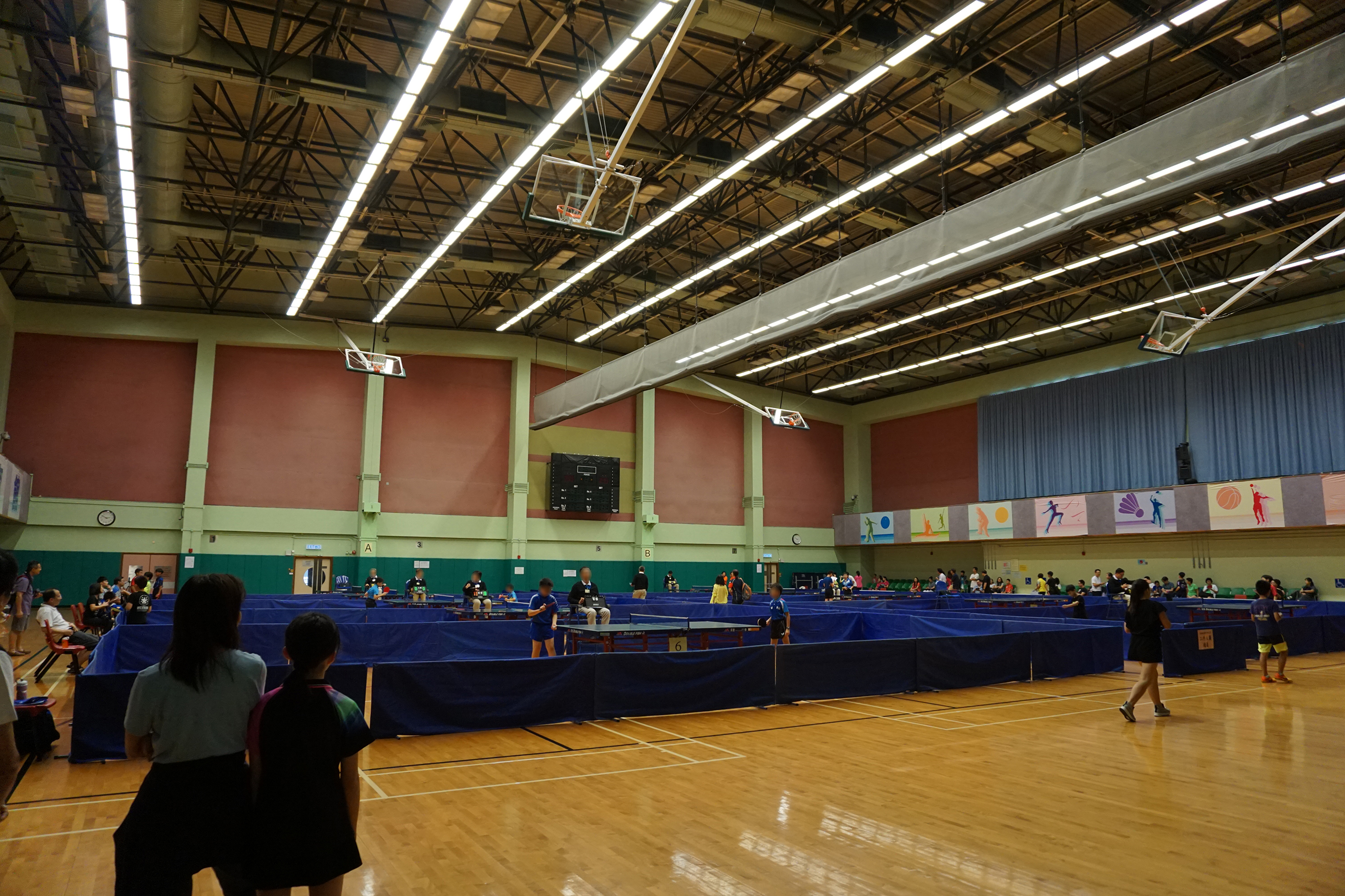 Municipal Services Building Sports Centre in Hung Hom, Hong Kong.